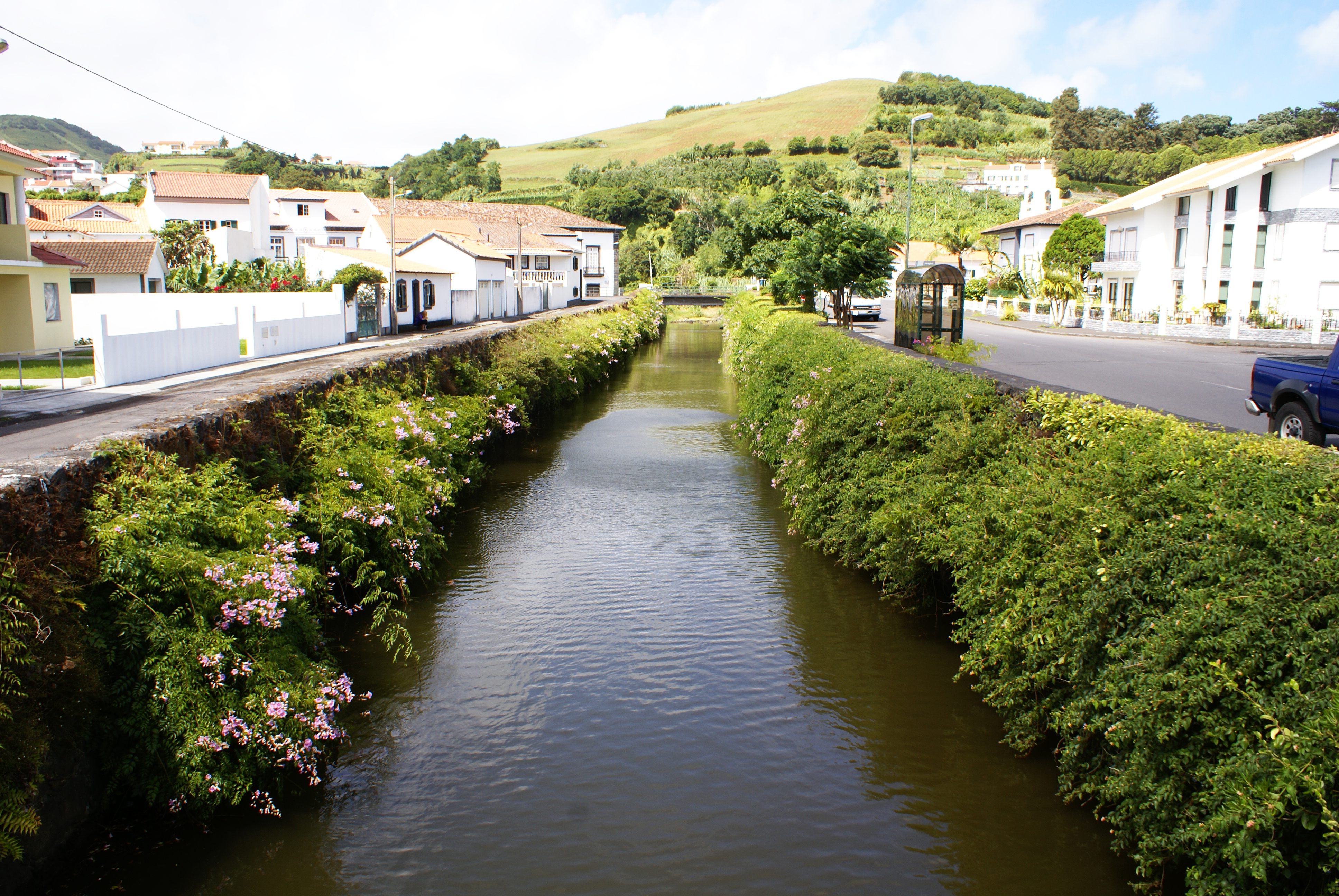 Ribeira da Conceição, Horta, ilha do Faial, Açores, Portugal